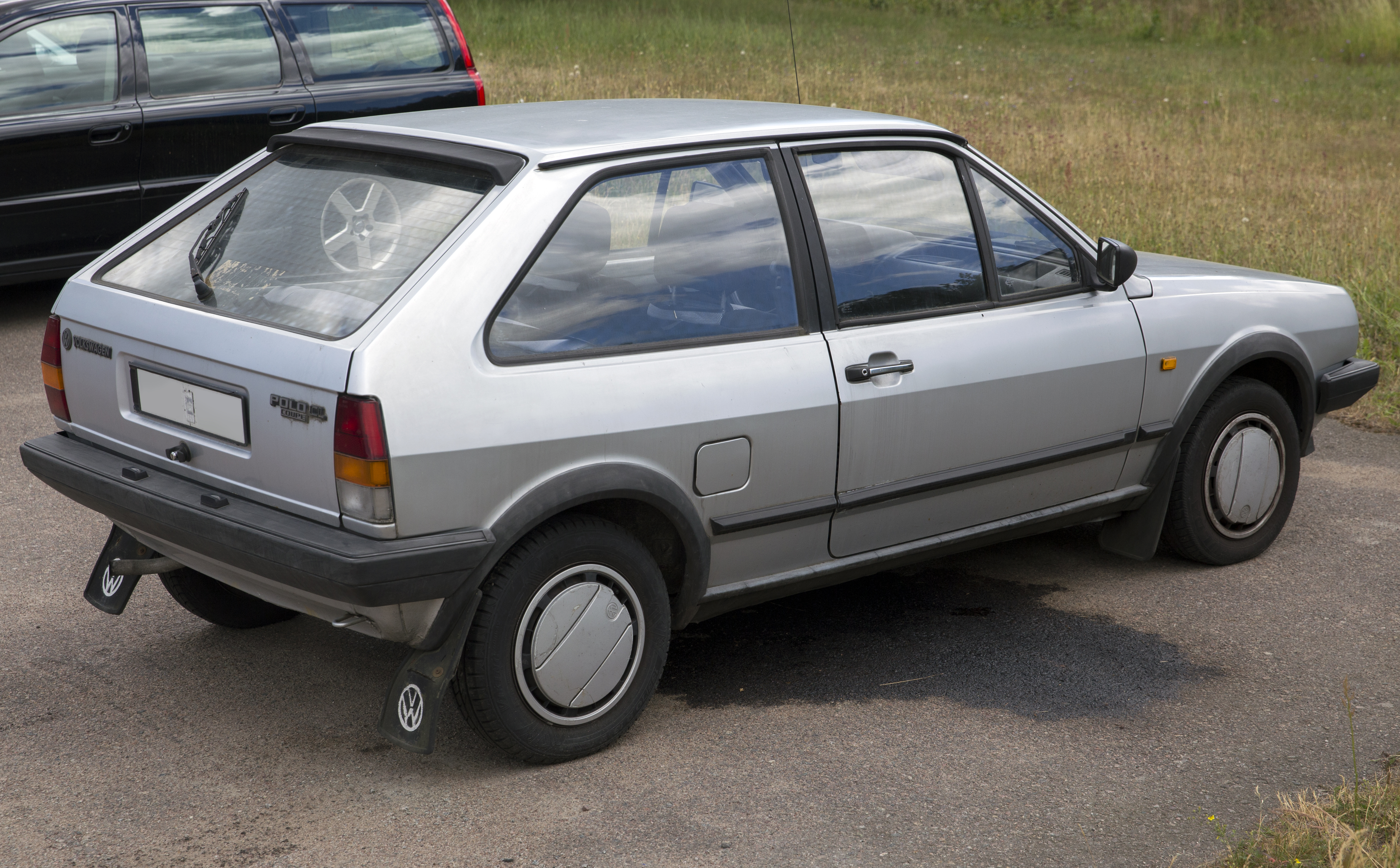 1987 Volkswagen Polo CL Coupé in Småland, Sweden. Swedish-market specs, meaning an emissions-scrubbed engine with 1272cc and 58PS (43kW).